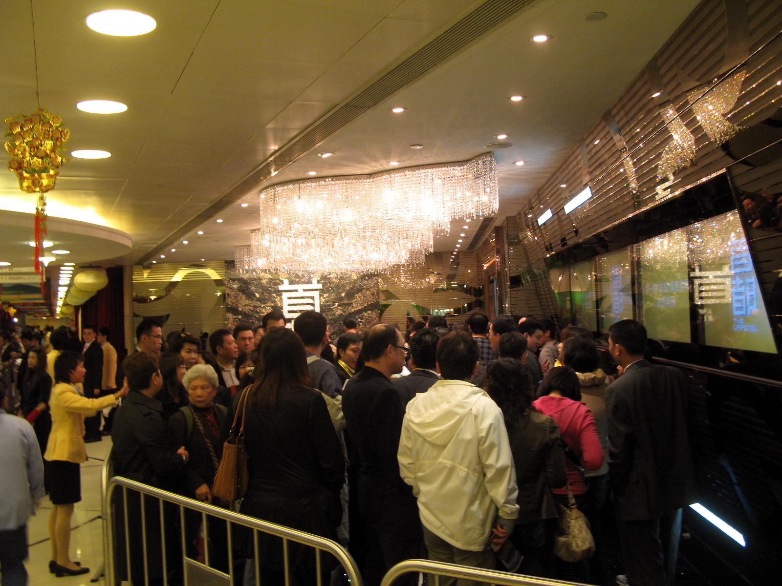 HK Lohas Park Plase 1 Showflat